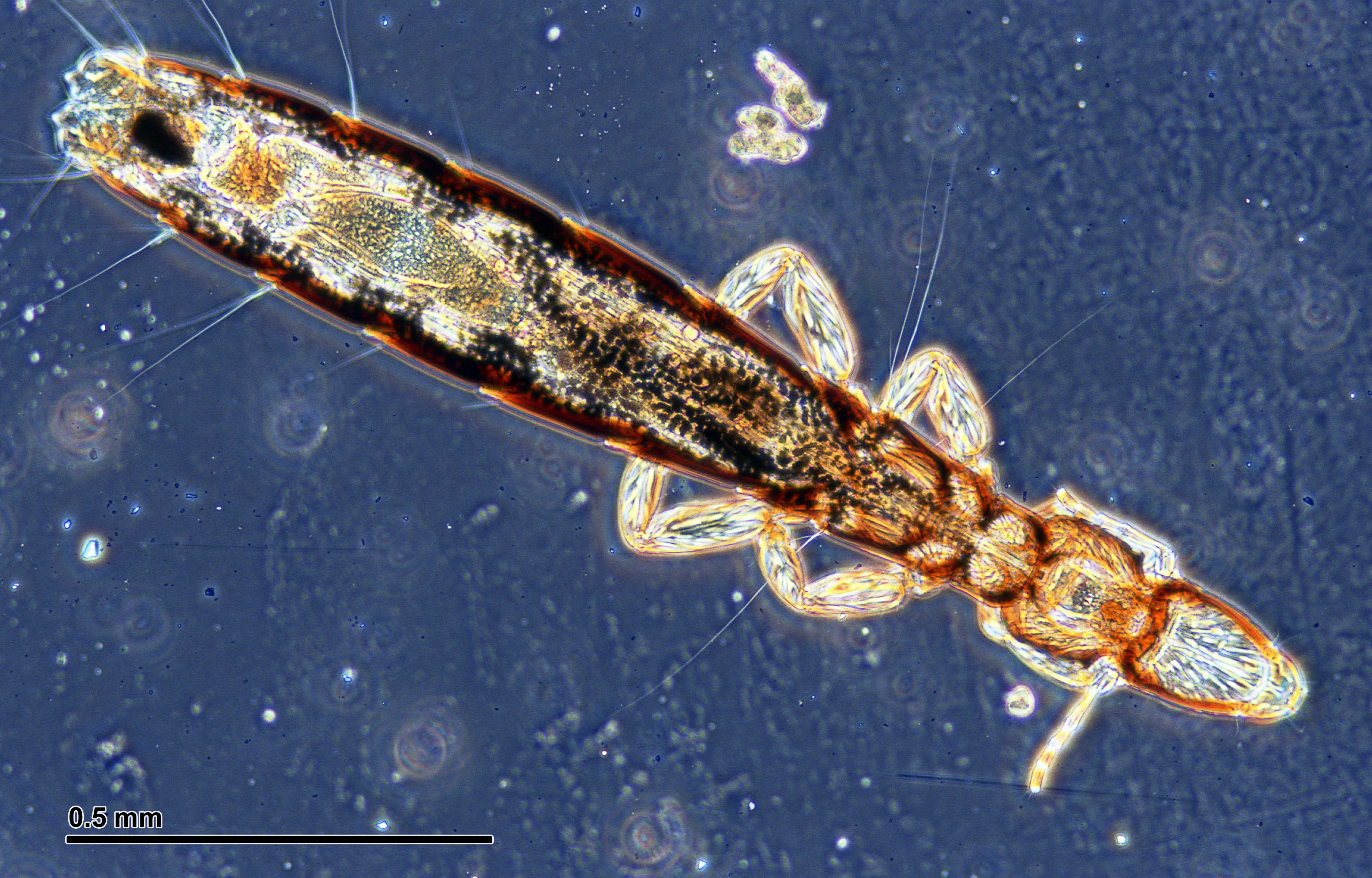 Louse (Mallophaga): Columbicola columbae (Mallophaga). Optical microscopy technique: Negative phase contrast. Magnification: 160x (for picture width 26 cm ~ A4 format).